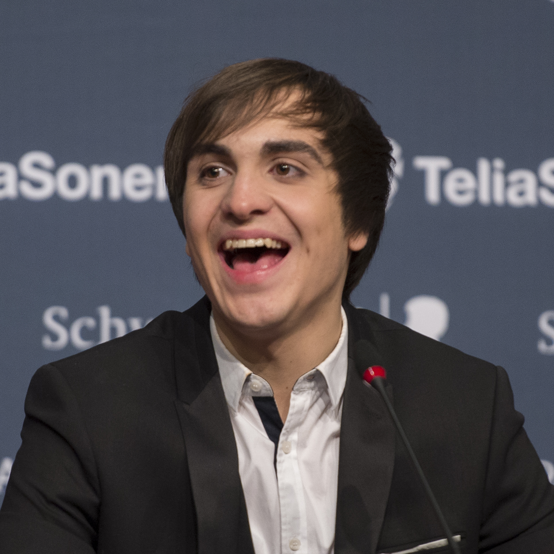 Roberto Bellarosa at a press conference during the Eurovision Song Contest 2013 in Malmö. (Help translate this text)